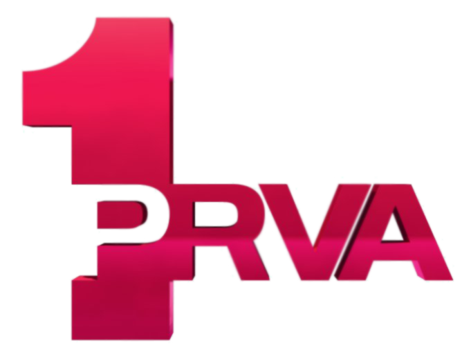 1Prva - Prva Srpska Televizija